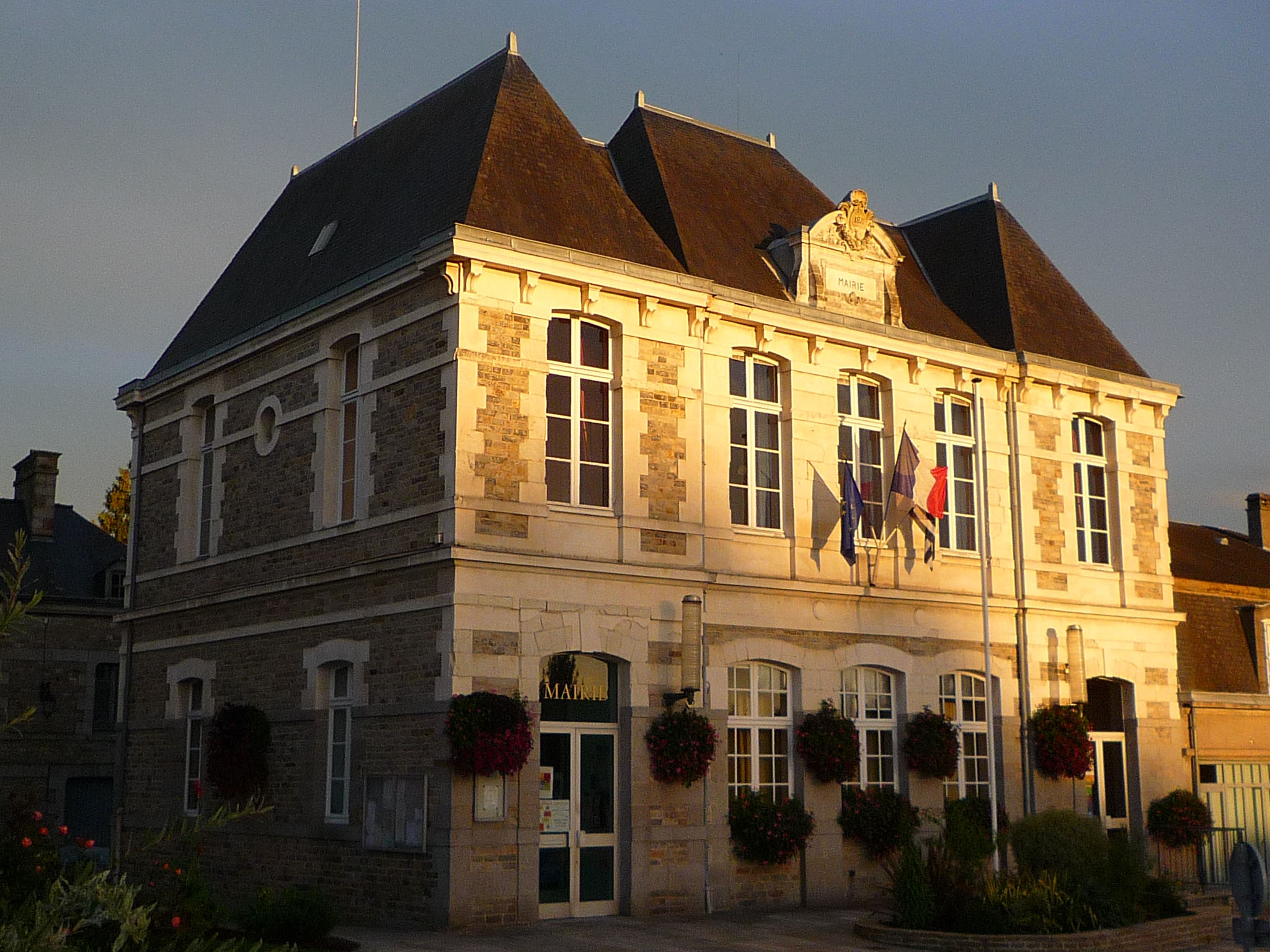 Town hall of Saint-Aubin-du-Cormier.